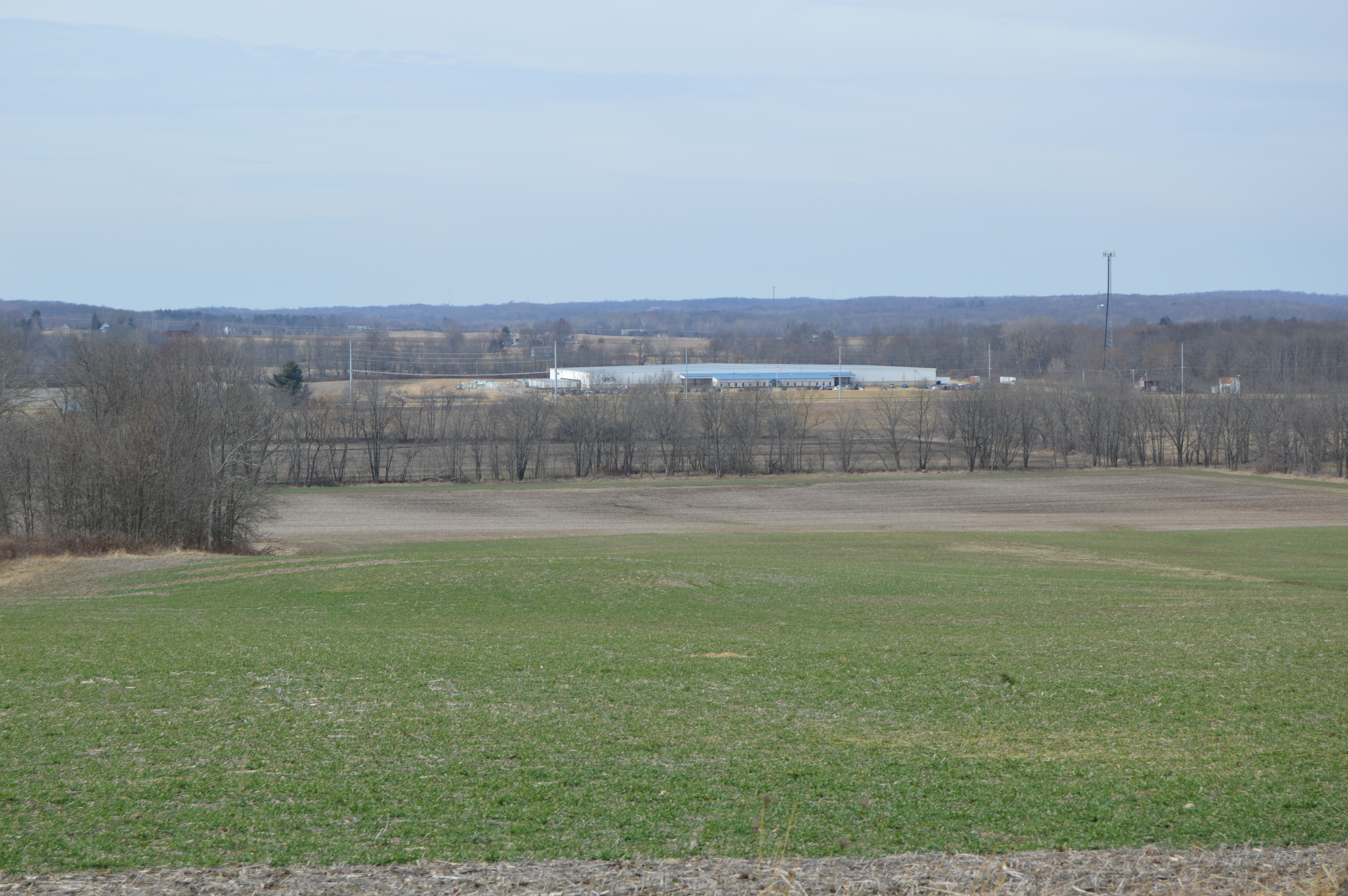 Scenery in far southeastern Clinton Township, Knox County, Ohio, United States, seen looking west from the intersection of State Route 13 and Range Line Road. The large building in the background is a Sanoh America manufacturing plant for automotive parts, located within the Mount Vernon city limits.